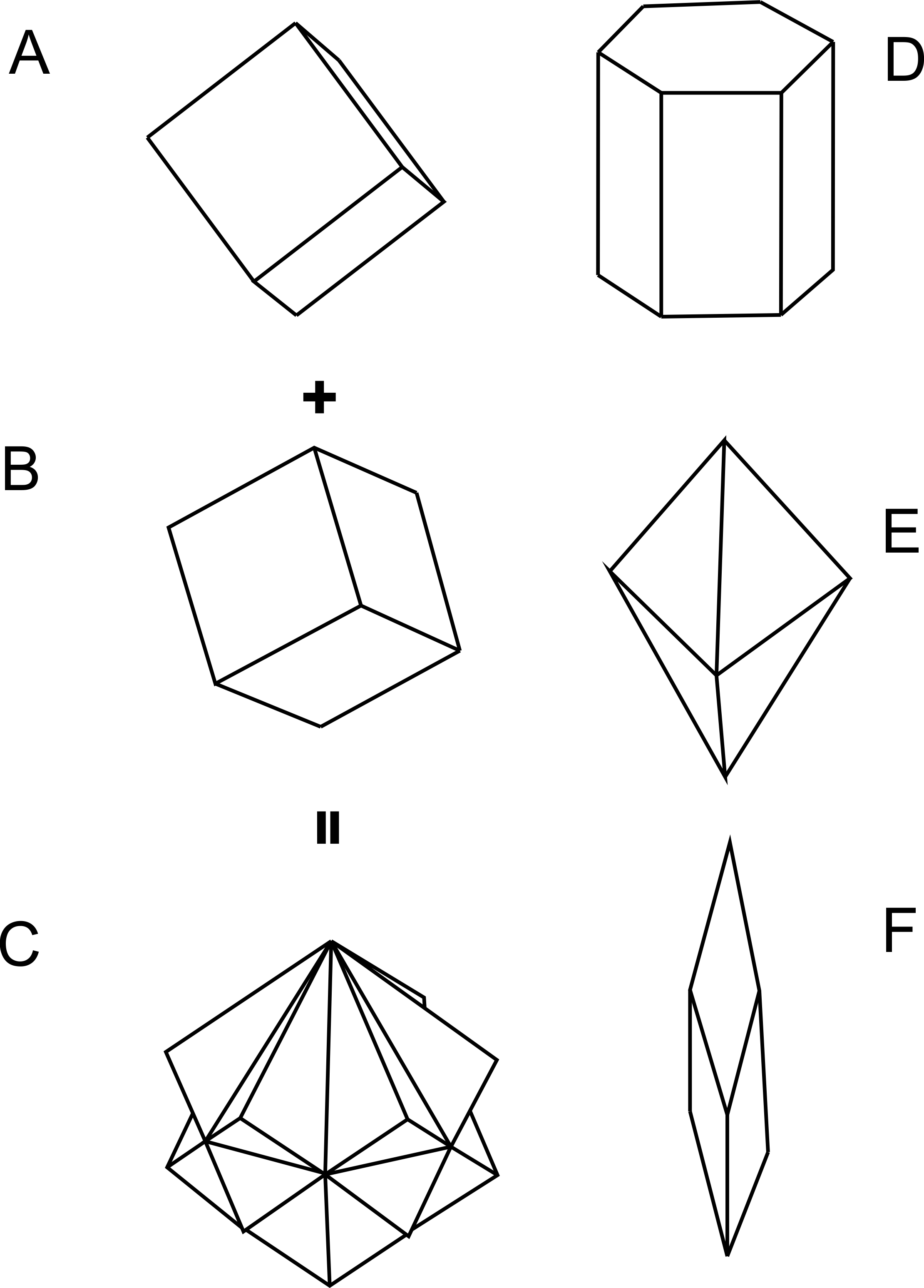 Quartz basic forms